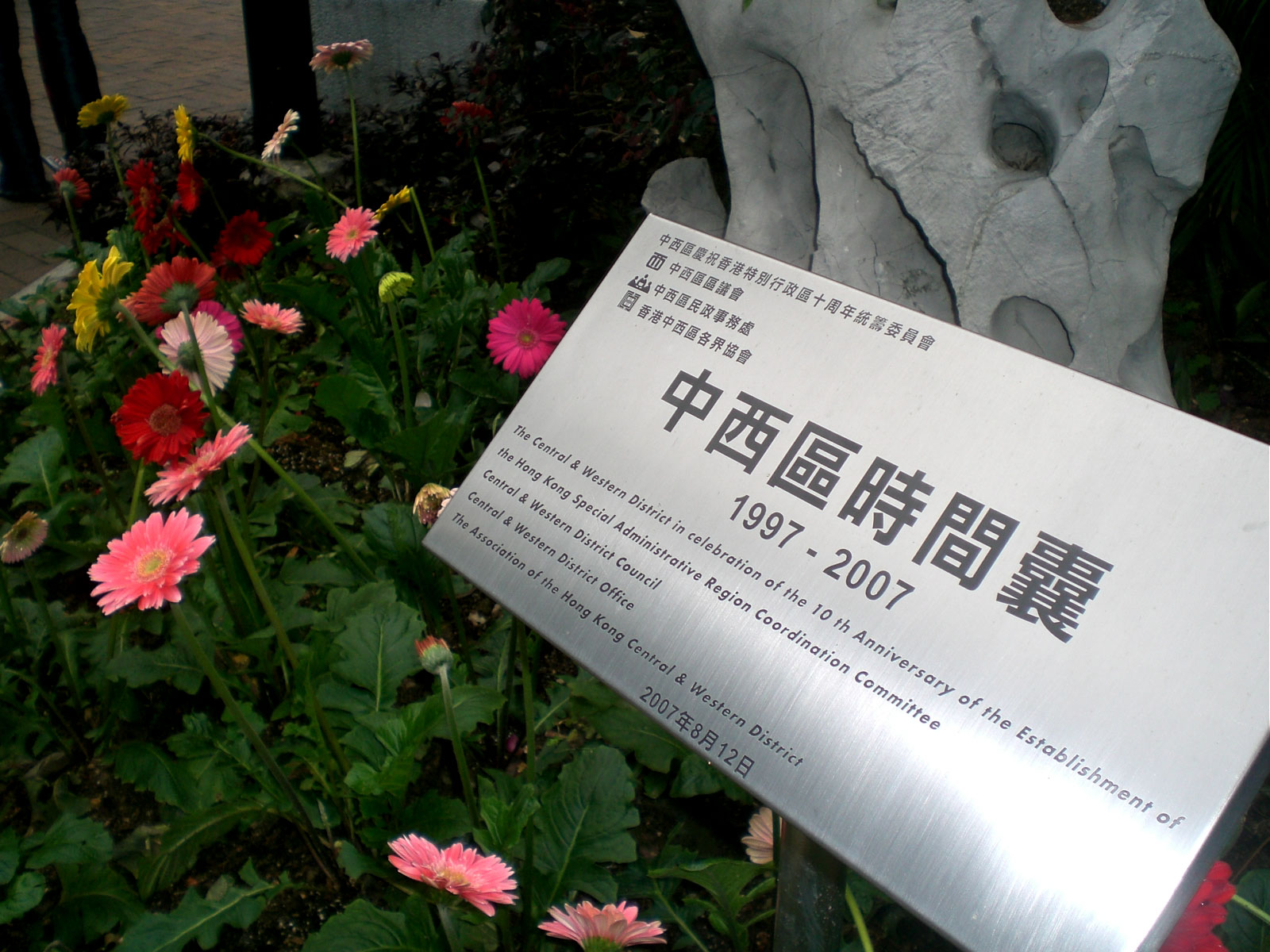 時間囊 Time capsule @ 荷李活道公園 Hollywood Road Park, Sheung Wan, Hong Kong